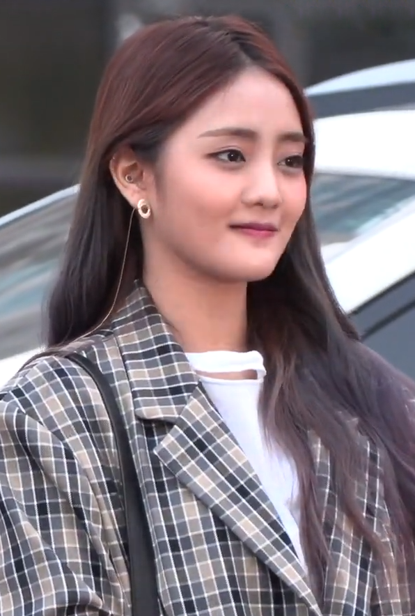 Minnie at Music Bank on March 7,2019